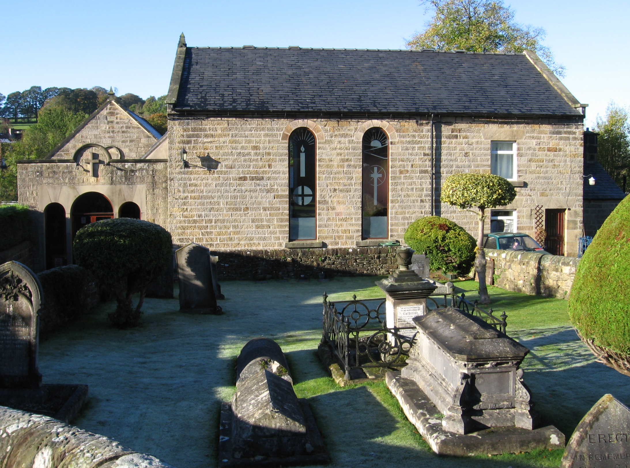 Tansley Methodist Church, Derbyshire